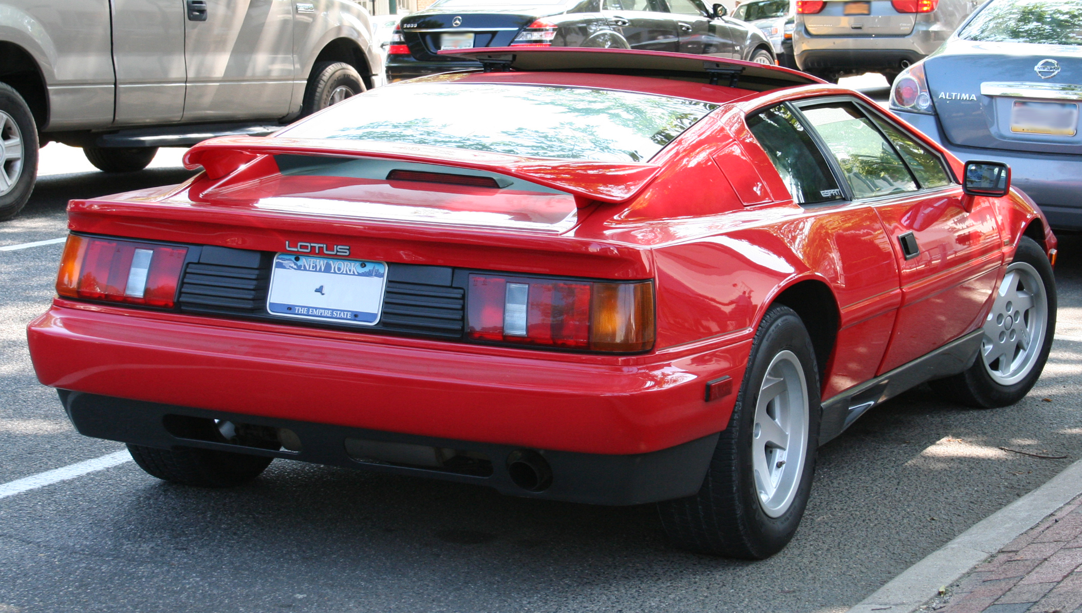 Rear view of US market 1988 Lotus Esprit Turbo, "910" engined 215hp version preceding the SE model